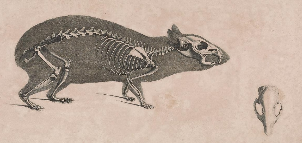 skeleton of Brazilian guinea-pig